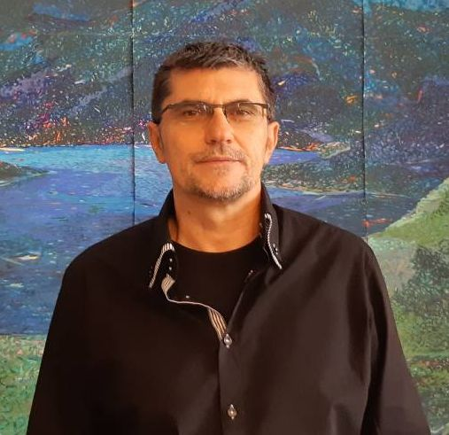 Picture of Dejan Vukićević